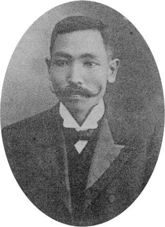 Yukijirō Shibasaki, 3rd director of the Nagasaki Higher Commercial School.